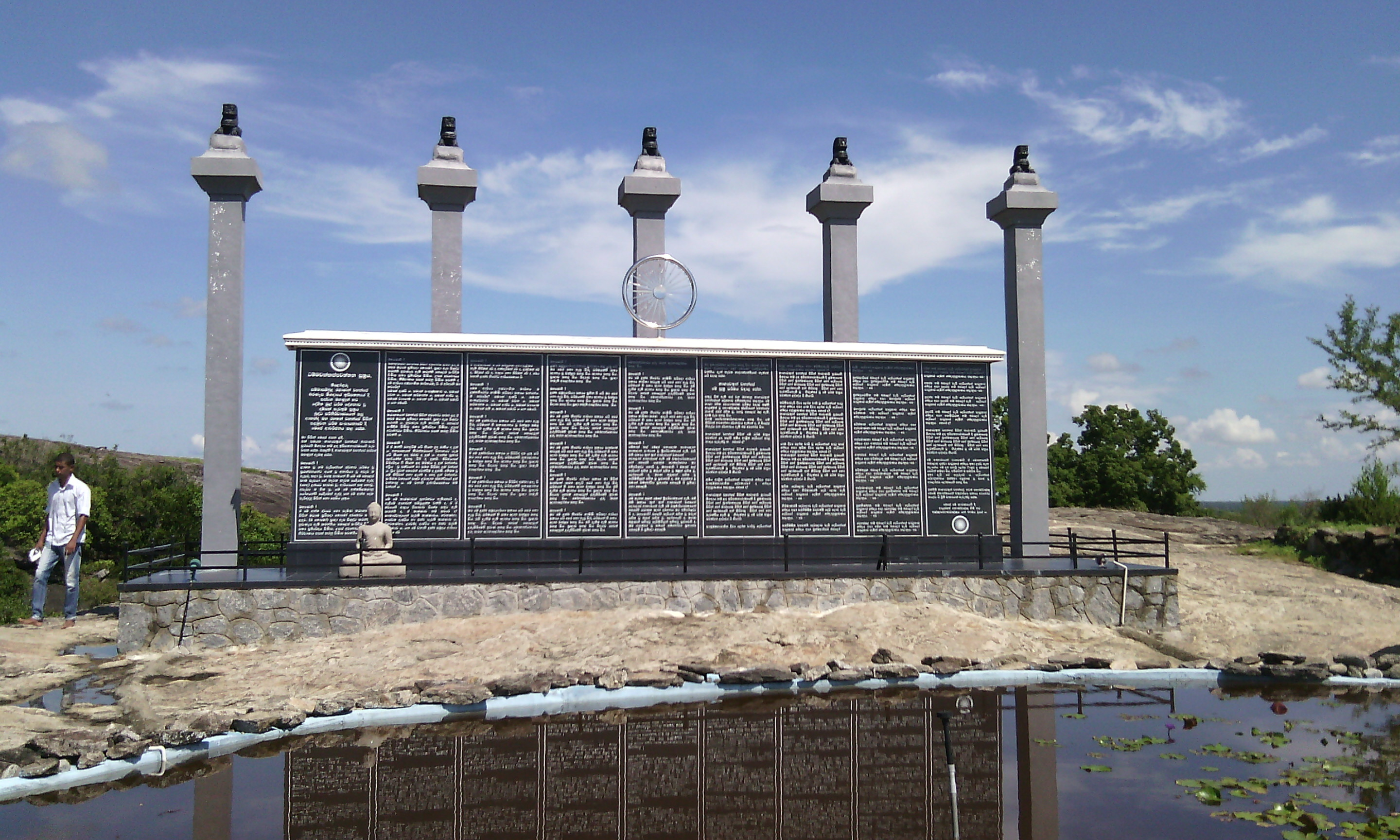 Buddhangala Raja Maha Viharaya